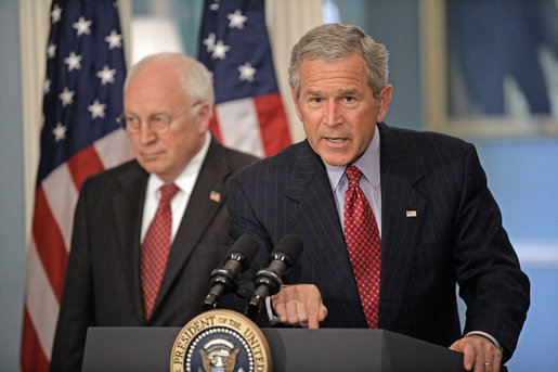 United States of America President George W. Bush addresses the media at the United States State Department after a series of meetings today discussing America's foreign policy. "America recognizes that civilians in Lebanon and Israel have suffered from the current violence, and we recognize that responsibility for this suffering lies with Hezbollah. It was an unprovoked attack by Hezbollah on Israel that started this conflict," said President Bush. "Hezbollah terrorists targeted Israeli civilians with daily rocket attacks. Hezbollah terrorists used Lebanese civilians as human shields, sacrificing the innocent in an effort to protect themselves from Israeli response."